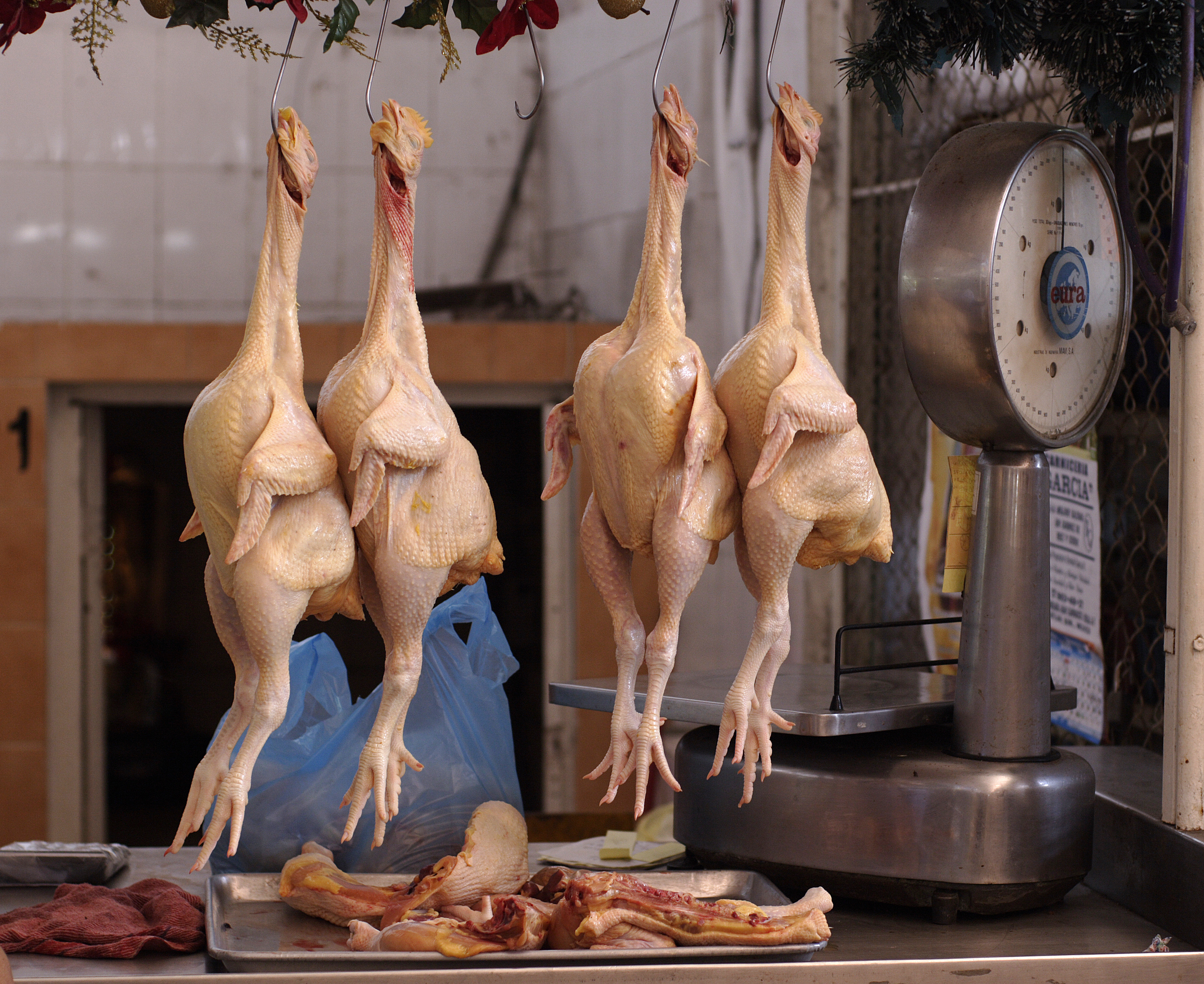 Chicken meat displayed for sale at public food market in Mazatlan, Sinaloa, Mexico.